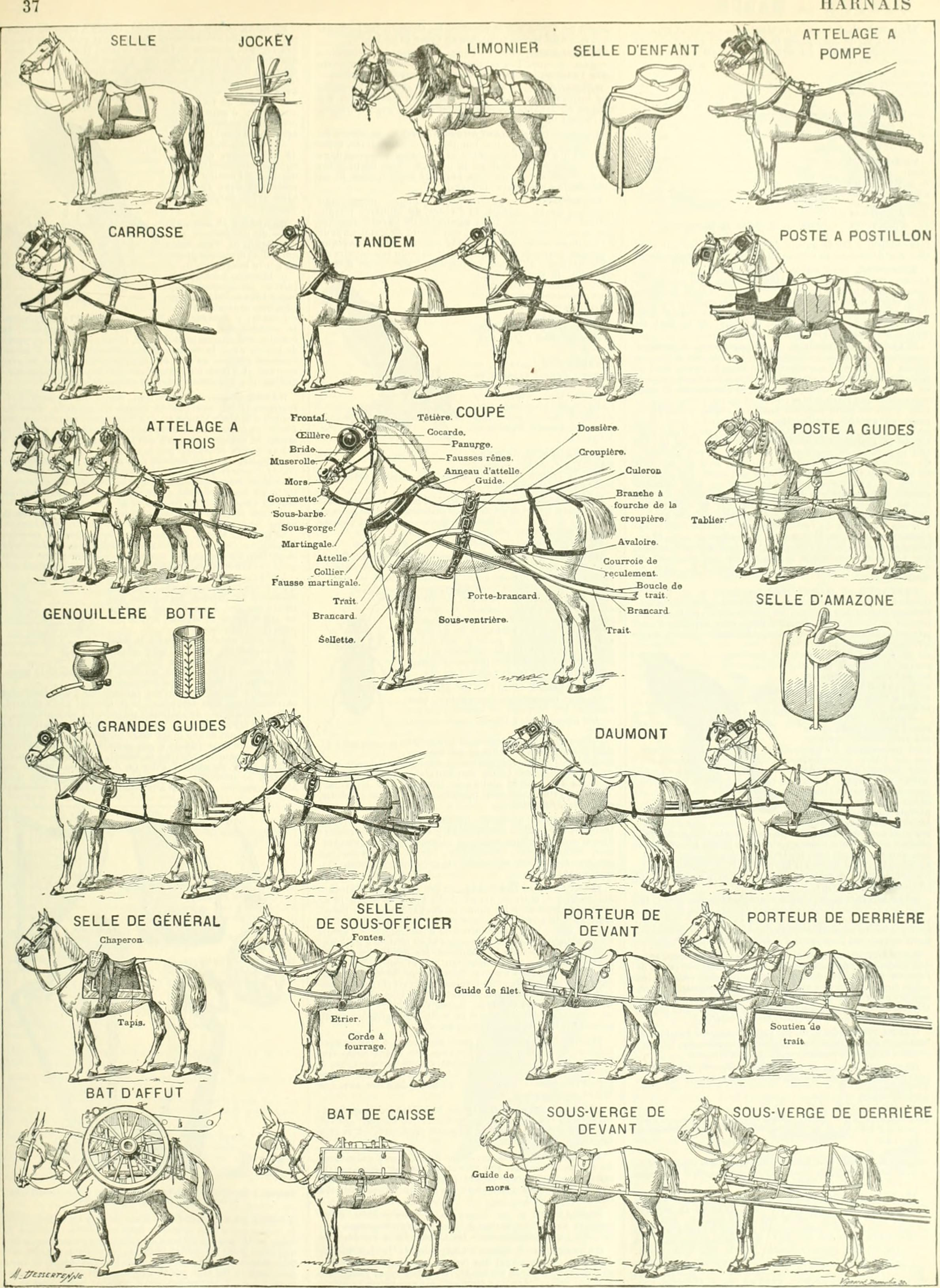 Title: Nouveau Larousse illustré : dictionnaire universel encyclopédique Year: 1898 (1890s) Authors: Larousse, Pierre, 1817-1875 Augé, Claude, 1854-1924 Subjects: Encyclopedias and dictionaries, French Publisher: Paris Larousse Text Appearing Before Image: ière.s dela Roumanie, dans les Karpathes, sur le haut cours de lOitou Muta, tributaire gauche du Danube; 3.556 kilom. carr.;130.000 hab. Vastes forêts, pâturages, bétail, céréales,CtiçM. Sep^i-Szcnt-Gyrjrgy. HARONG (h asp. et ron) ou HARONGE (A asp. et ronf— de nromja, nom madécasse) n. m. Genre dhypéricinées,comprenant des arbustes à feuilles entières, à fleurs pe-tites réunies en grappe terminale. (Le fruit est un drupe.Originaire do Madagascar.) HarOUDJ, chaîne de montagnes de lAfrique du Nord,qui sétend entre la Tripolitaine et le plateau du Fezzan.Elle comprend deux massifs : à lO., le Djebel Soda ouMontagne-Noire; à TE., le Haroudj proprement dit. Lunet lautre sont de formation volcanique et sélèvent au-dessus dun plateau calcaire : le premier, dune altitudemoyenne de 750 m. ; le second, dune altitude moyenne de600 m. Ce nom de Montagne-Noire (Mons Niger des an-ciens) sexplique par la coloration des roches volcaniques,moitié rouges, moitié noires. HARNAIS Text Appearing After Image: Voir ATTELAGE, roitvss, etc., et le nom particulier 4o chscooe des parties du baroais. IIAROUÉ — HARPE